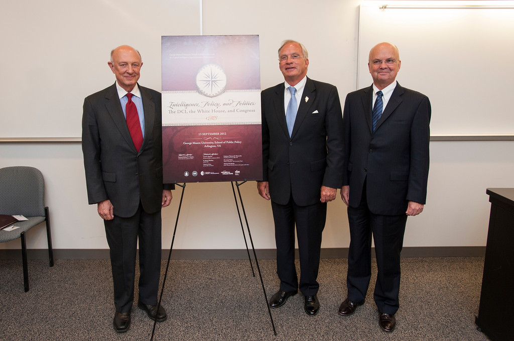 Former Directors of the CIA (from left) R. James Woolsey, Porter Goss and Gen. Michael Hayden (Ret.) at the “Intelligence, Policy and Politics: The DCI, White House and Congress” conference hosted by the CIA and the George Mason University School of Public Policy. This event marked the release of historical documents from the first four Directors of Central Intelligence. For more information on CIA, visit (Photo by Alexis Glenn/George Mason University)